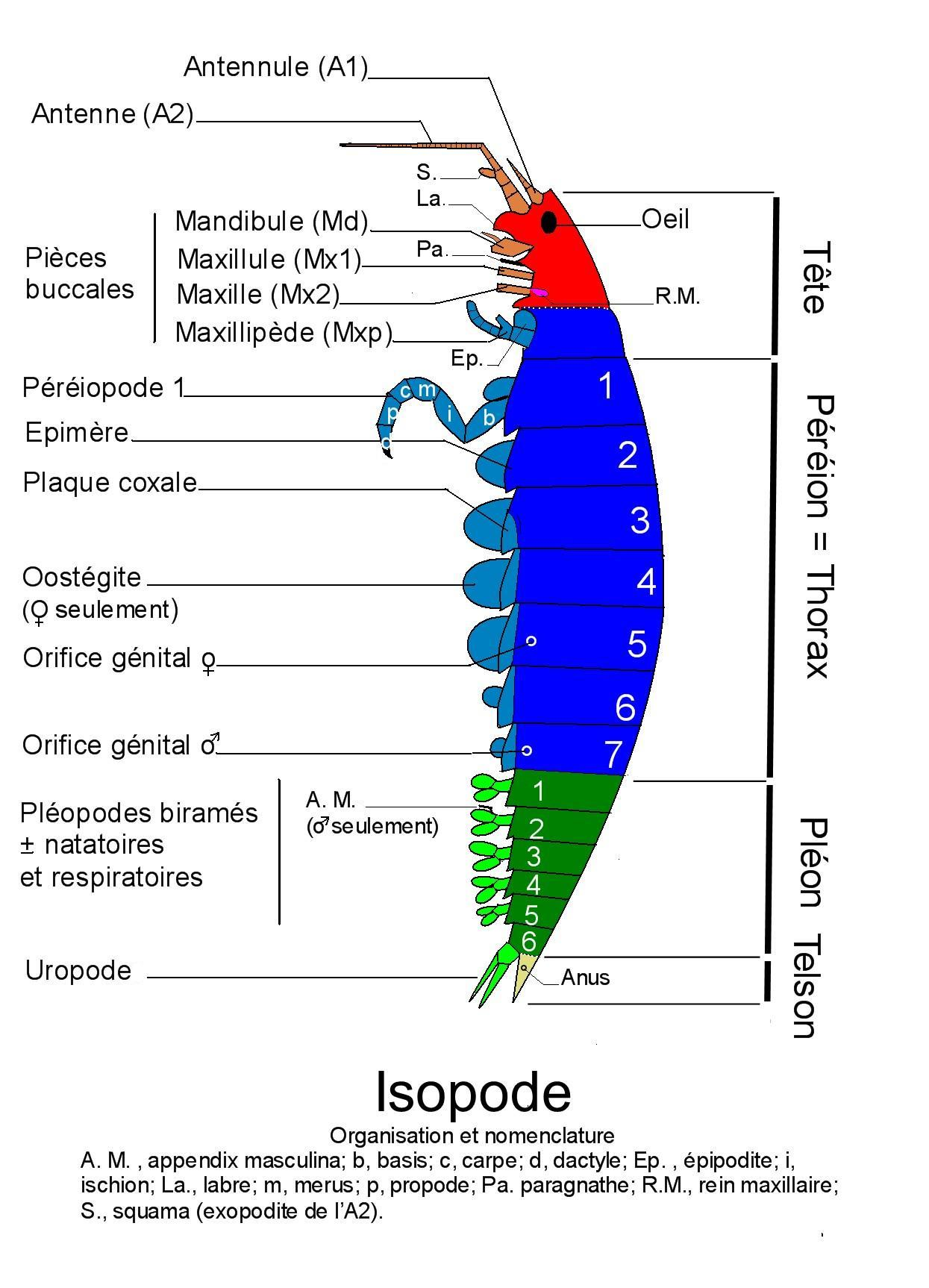 Isopoda, body plan.